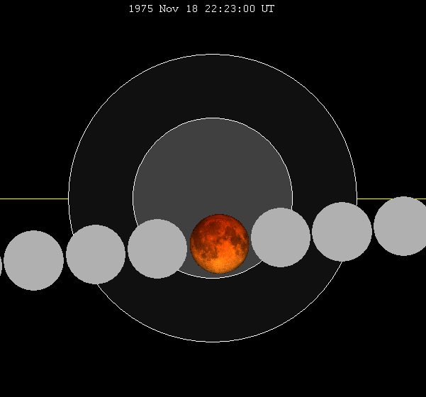 November 1975 lunar eclipse chart of moon's path through the earth's shadow. thumb